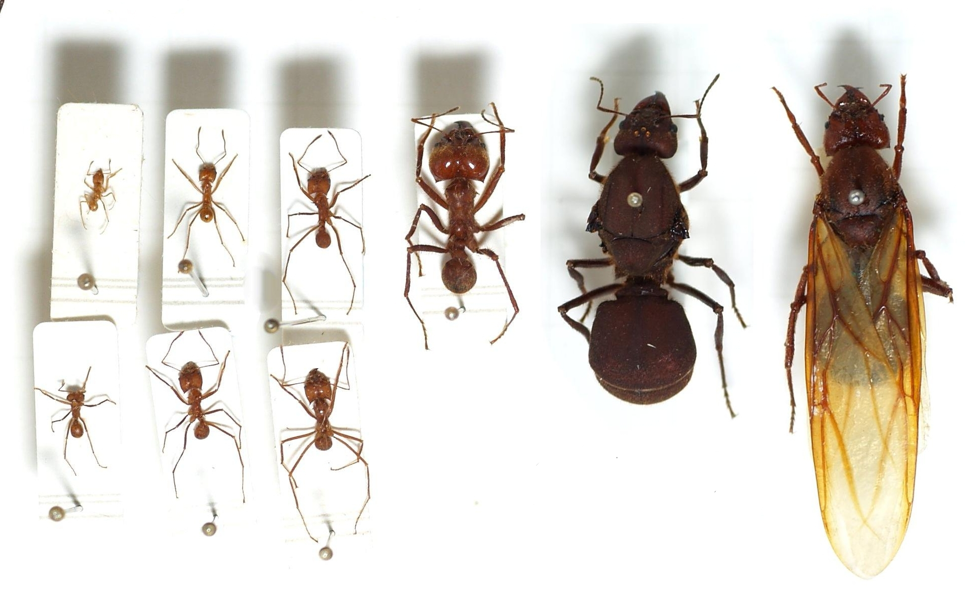 Atta cephalotes. Left most 7 are workers of various castes, right 2 are queens (rightmost: winged form).